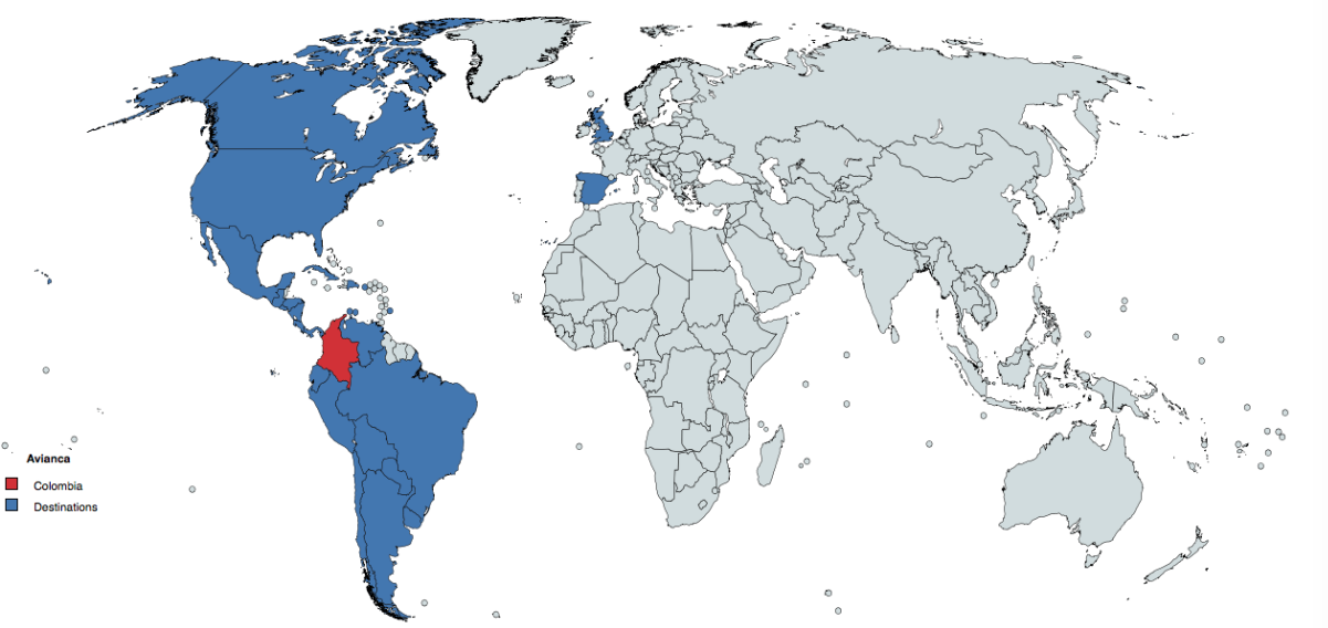 Avianca destinations